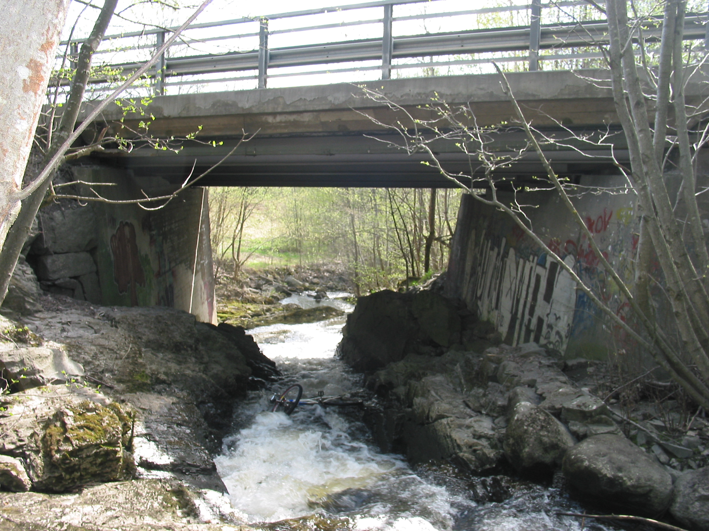 Norwegian National Road 168 runs across Øverlandselva. Seen from the north.